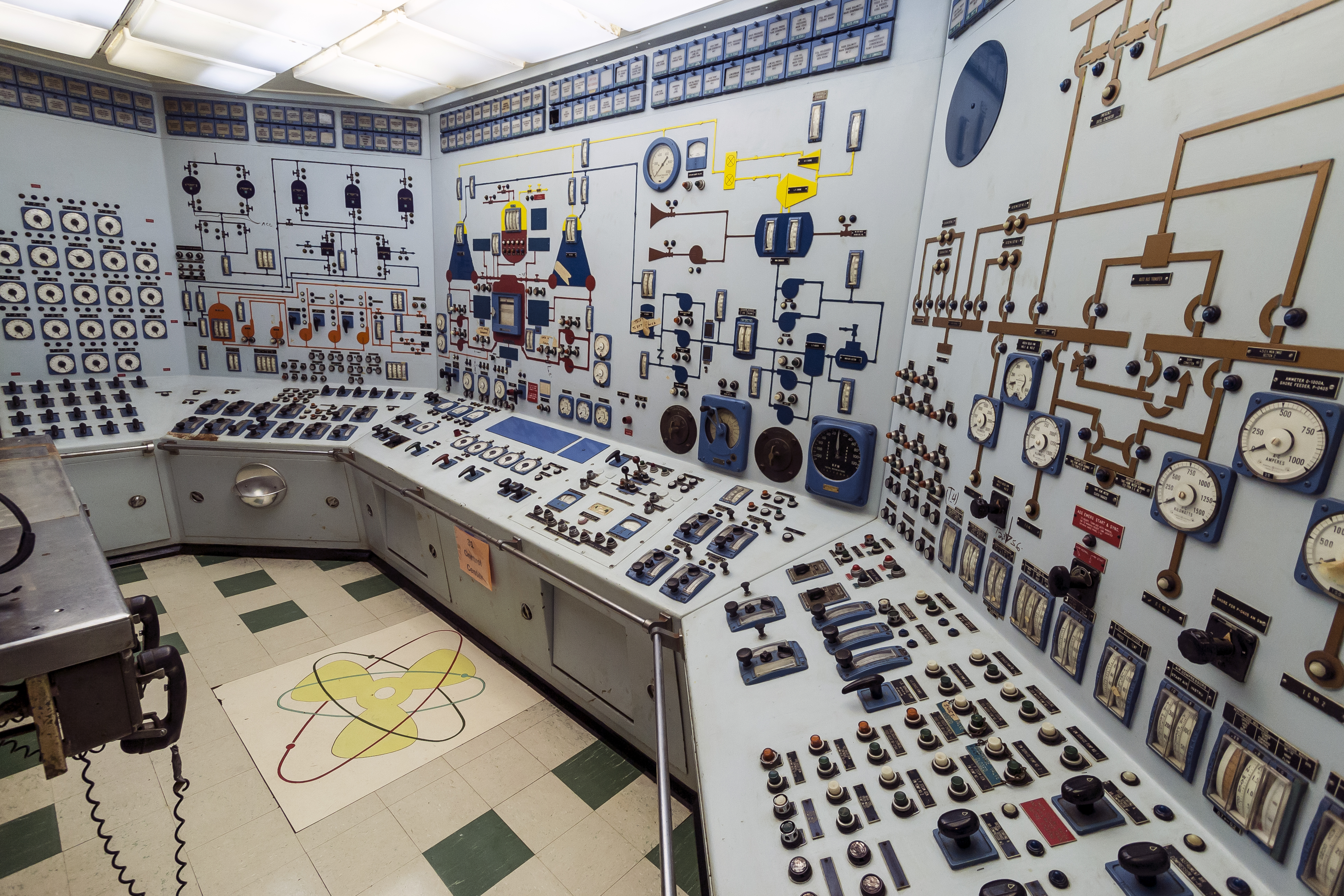 The control room of the nuclear ship NS Savannah, Baltimore, Maryland, USA